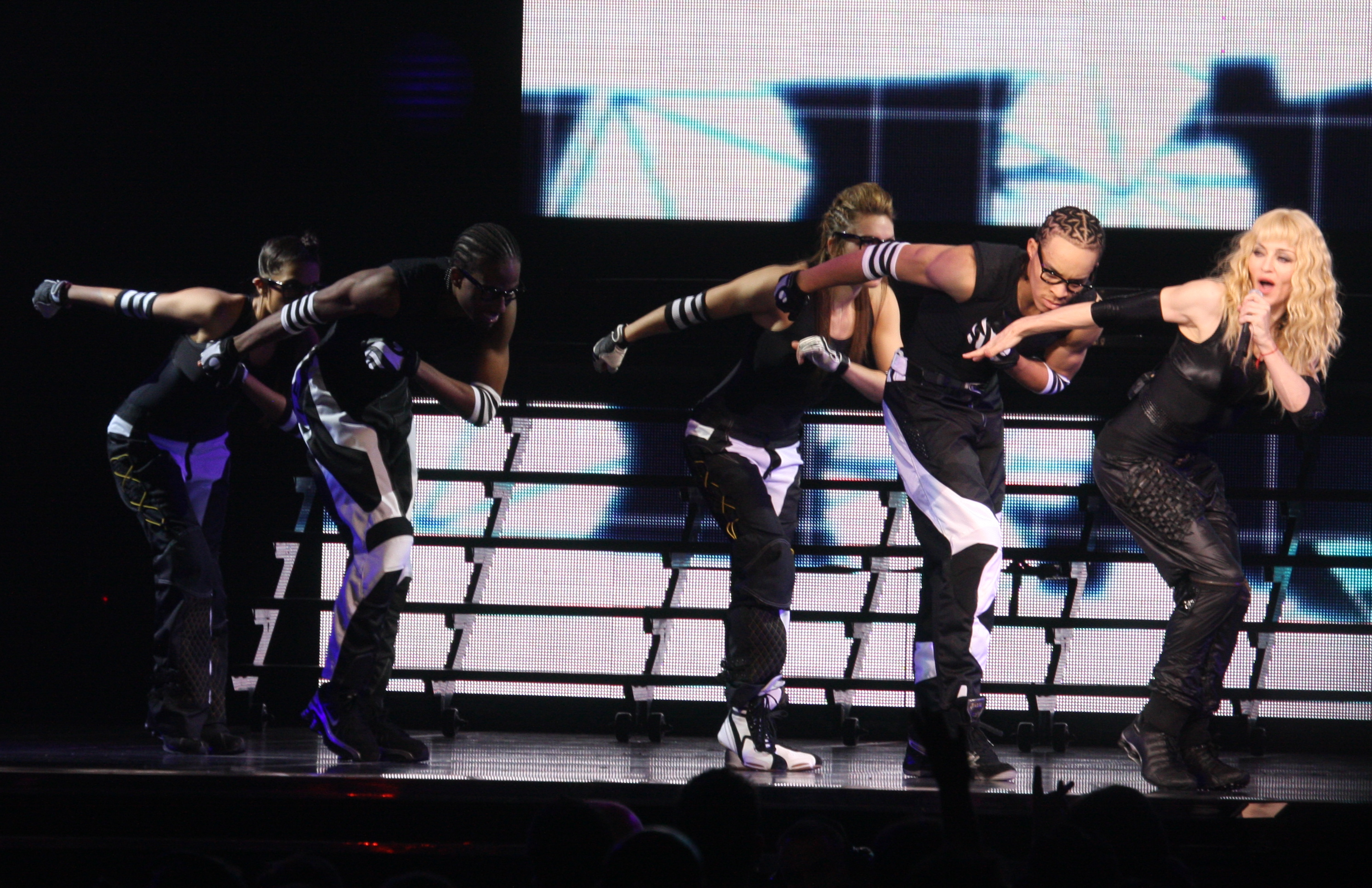 Give it to me